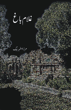 Title of ghulam bagh